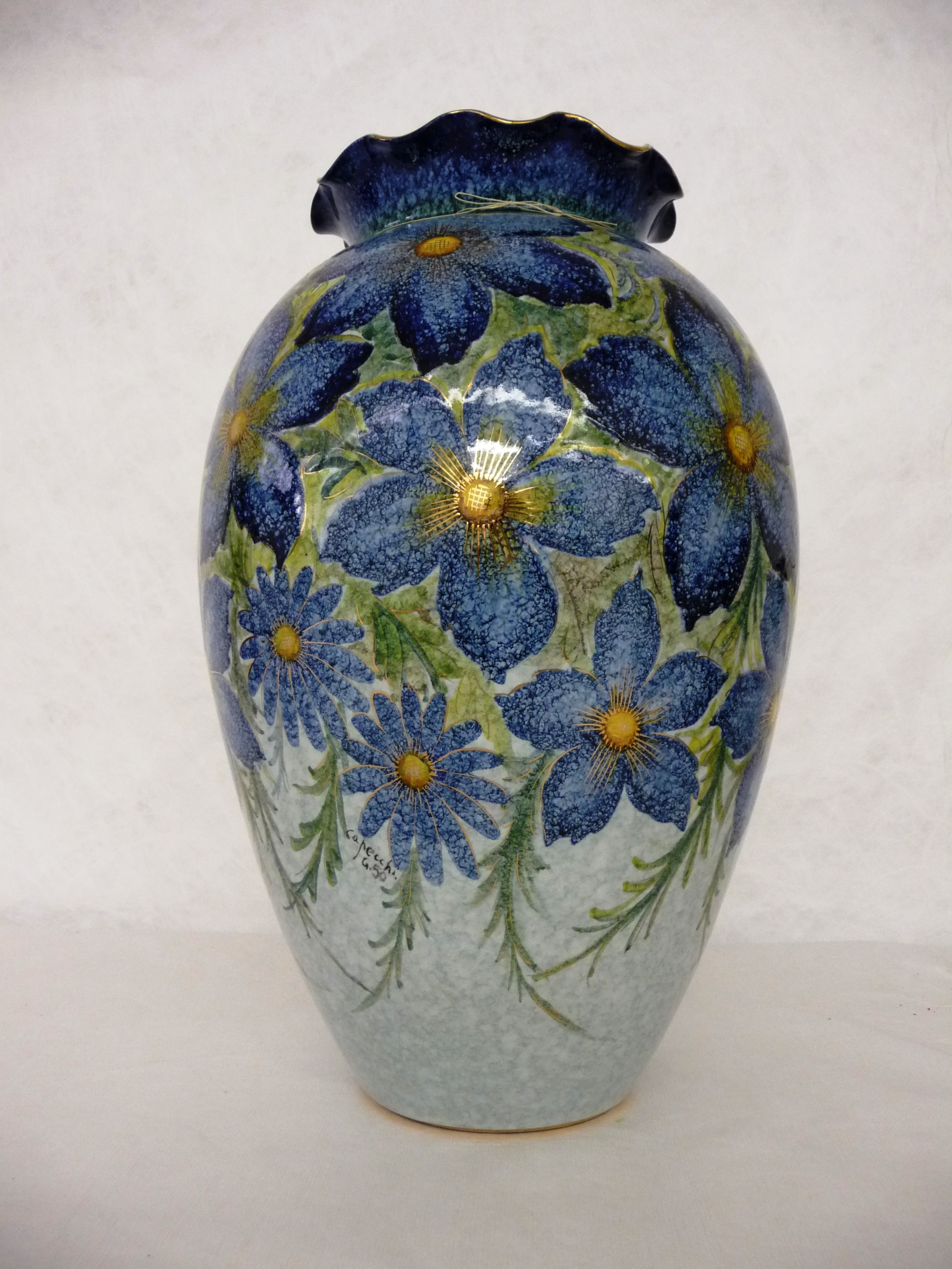 This is a red earthenware vase covered with a mottled pale blue glaze. It has large blue and gold-coated flowers and a scalloped gold-coated rim. It stands 43cm tall and is 18cm in diameter at the top. It was manufactured in Italy and collected by Benjamin Ronalds (1892-1970).